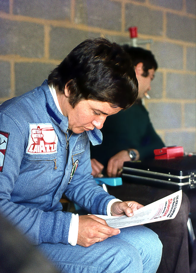 Lella Lombardi in pit garage during 6 hour Silverstone race, 1976.